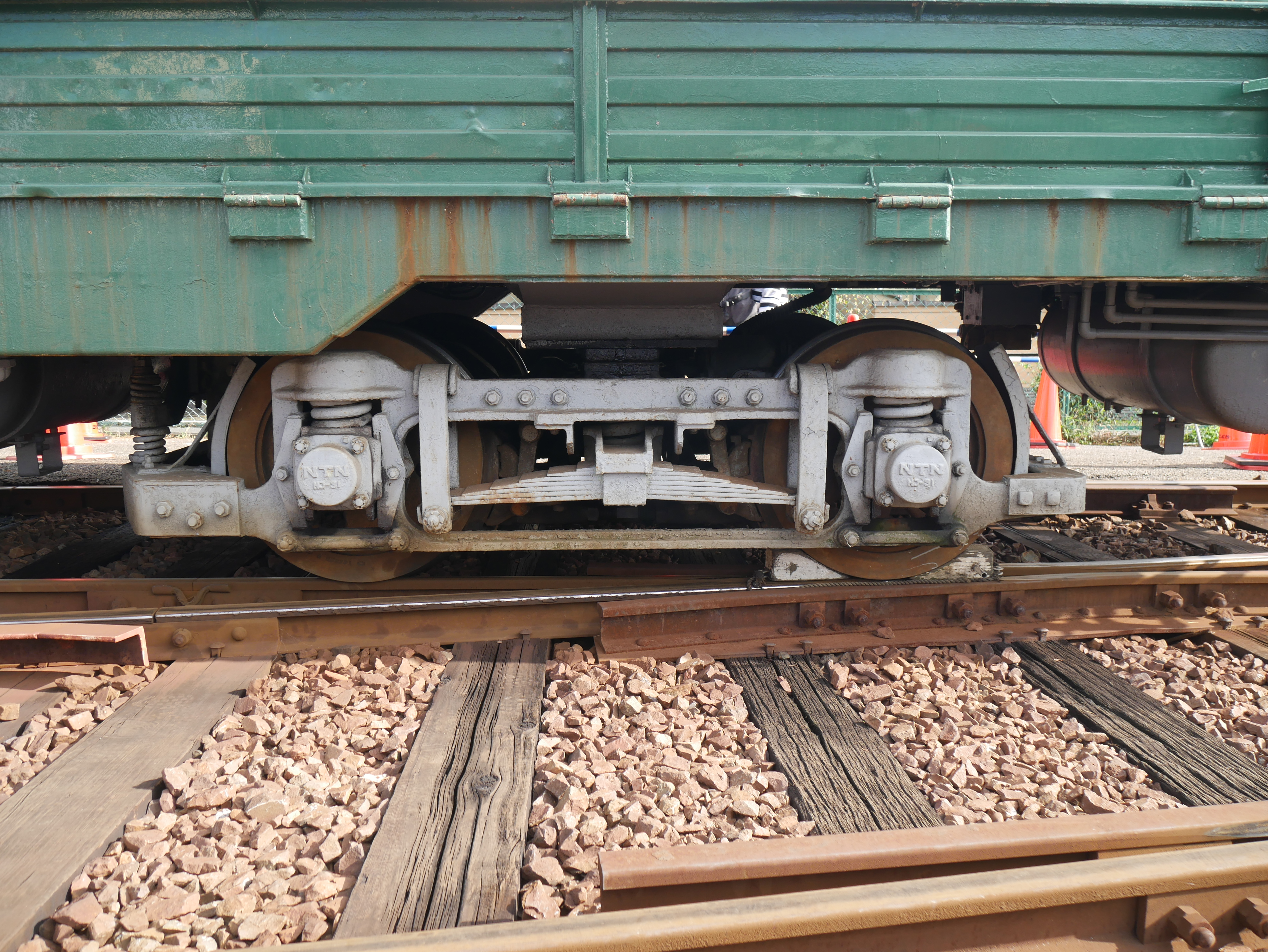 KS40L bogie truck on Eizan Electric Railway DETO 1001 at Shugakuin Depot